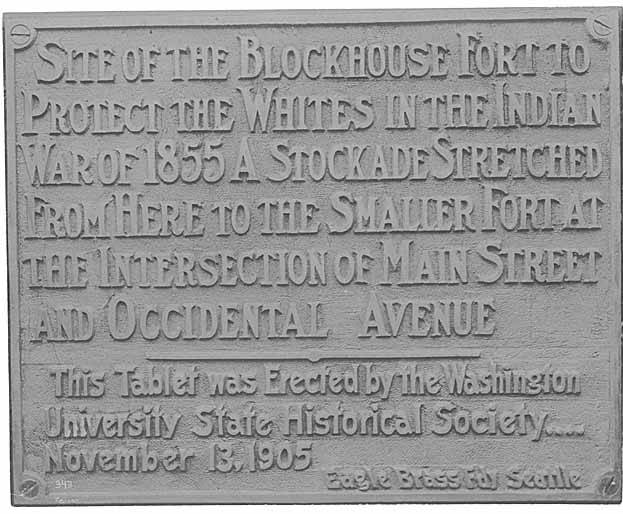 Text engraved on plaque: Site of the blockhouse fort to protect the whites in the Indian War of 1855 A stockade stretched from here to the smaller fort at the intersection on Main Street and Occidental Avenue. This tablet was erected by the Washington University State Historical Society.... November 13, 1905. Eagle Brass Fdy Seattle . Caption on image: 343. Peiser . Peiser 343 Subjects (LCTGM): Plaques--Washington (State)--Seattle; Historical markers--Washington (State)--Seattle